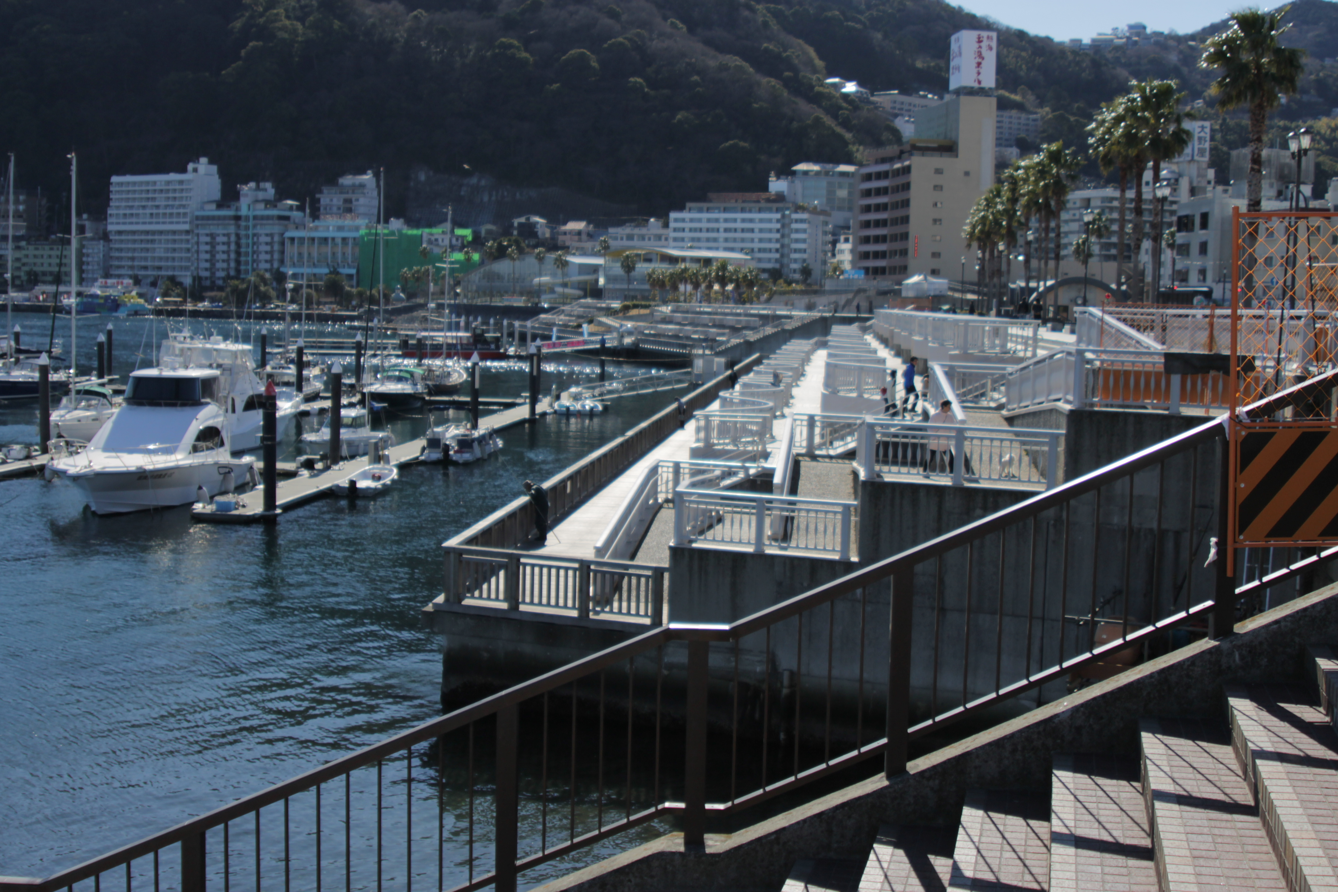 Nagisacho, Atami, Shizuoka Prefecture 413-0014, Japan